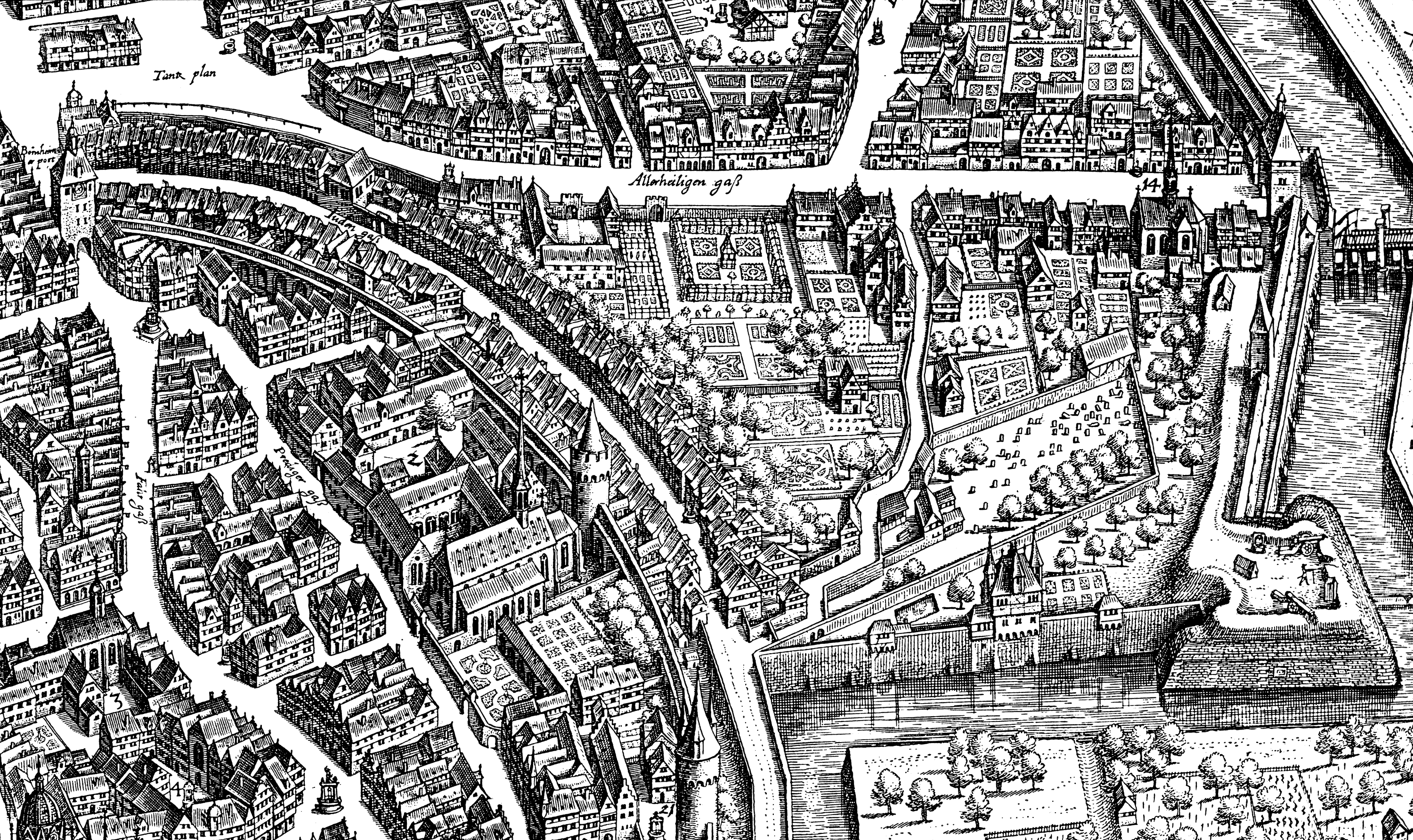 Frankfurt on the Main: detail of Merian’s plan with the Judengasse (jewish ghetto) and the Dominikanerkloster (monastery of the dominican order)